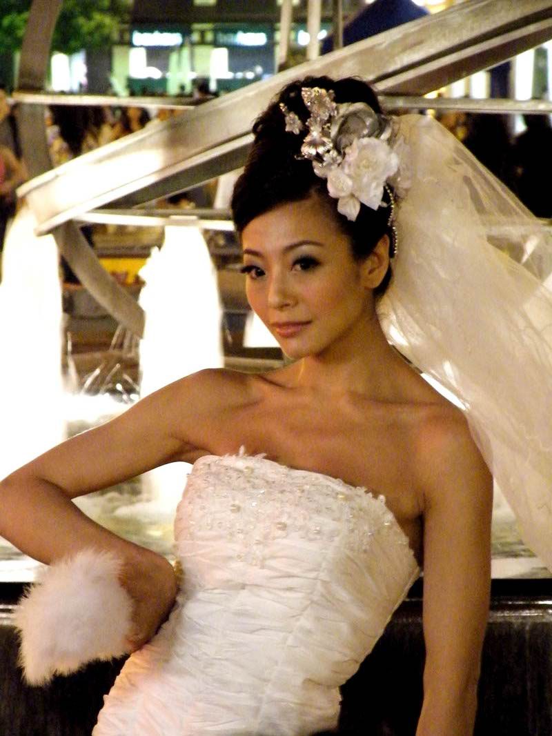 Perry CHIU Woon